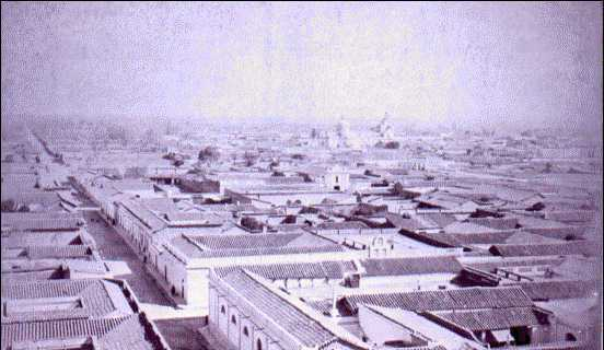 Salta City, as seen from top of San Francisco Church tower, in late 19th century/early 20th century